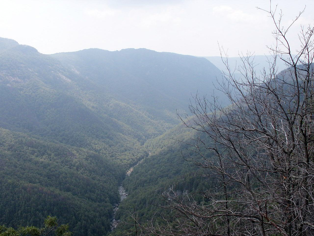 my photo. Linville Gorge from Wiseman's View (Pisgah National Forest, NC)